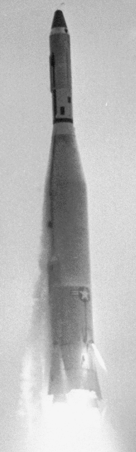 Launch of MIDAS 7 satellite on-board of LV Atlas Agena B (May 9 1863)